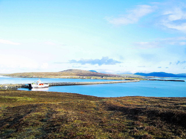 Causeway between North Uist and Berneray from North Uist with Harris in the background, Outer Hebrides, Scotland